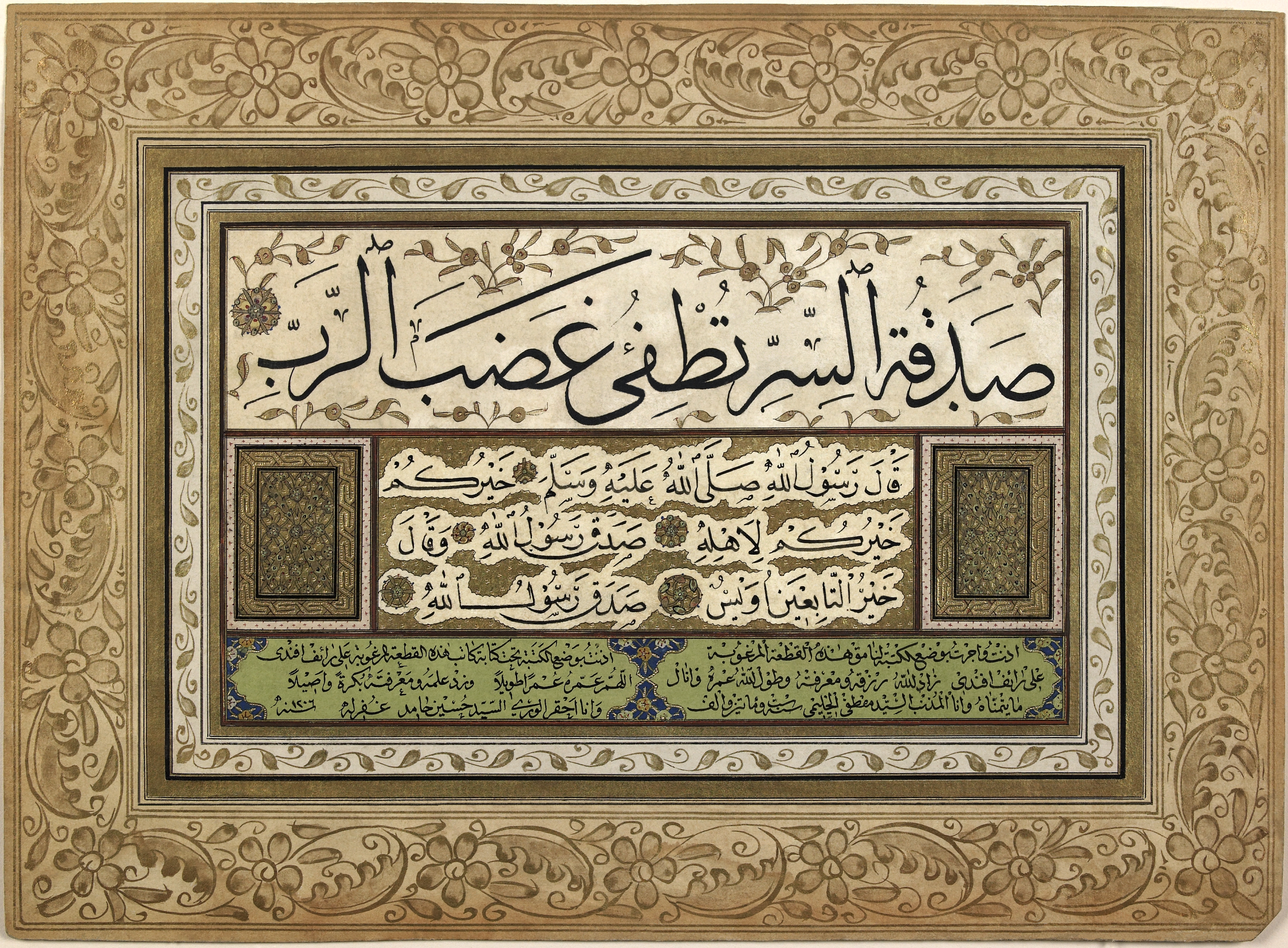 Example of an ijazah, or diploma of competency in Arabic calligraphy. Thuluth and naskh script. Written by 'Ali Ra'if Efendi in 1206/1791. 28 (w) x 21 (h) cm. The top and middle panels contain a Saying (Hadith) attributed to the Prophet Muhammad which reads: Secret charity quenches the wrath of the Lord. / The best of you is the best for his family. / The best of the followers is Uways. Arabic text reads:Türkçe: Arapça hat sanatının bir icazet veya yeterlilik diploması örneği. Metni Raif Ali Efendi tarafından 1206/1791 yılında yazılmıştır. Üst ve orta bölümünde Peygamber Muhammed'i atfeden Hadis'ten sözler yer almaktadır: Gizli verilen sadaka Allah'ın gazabını söndürür. (Mecmeu’z-Zevâid, III/110).